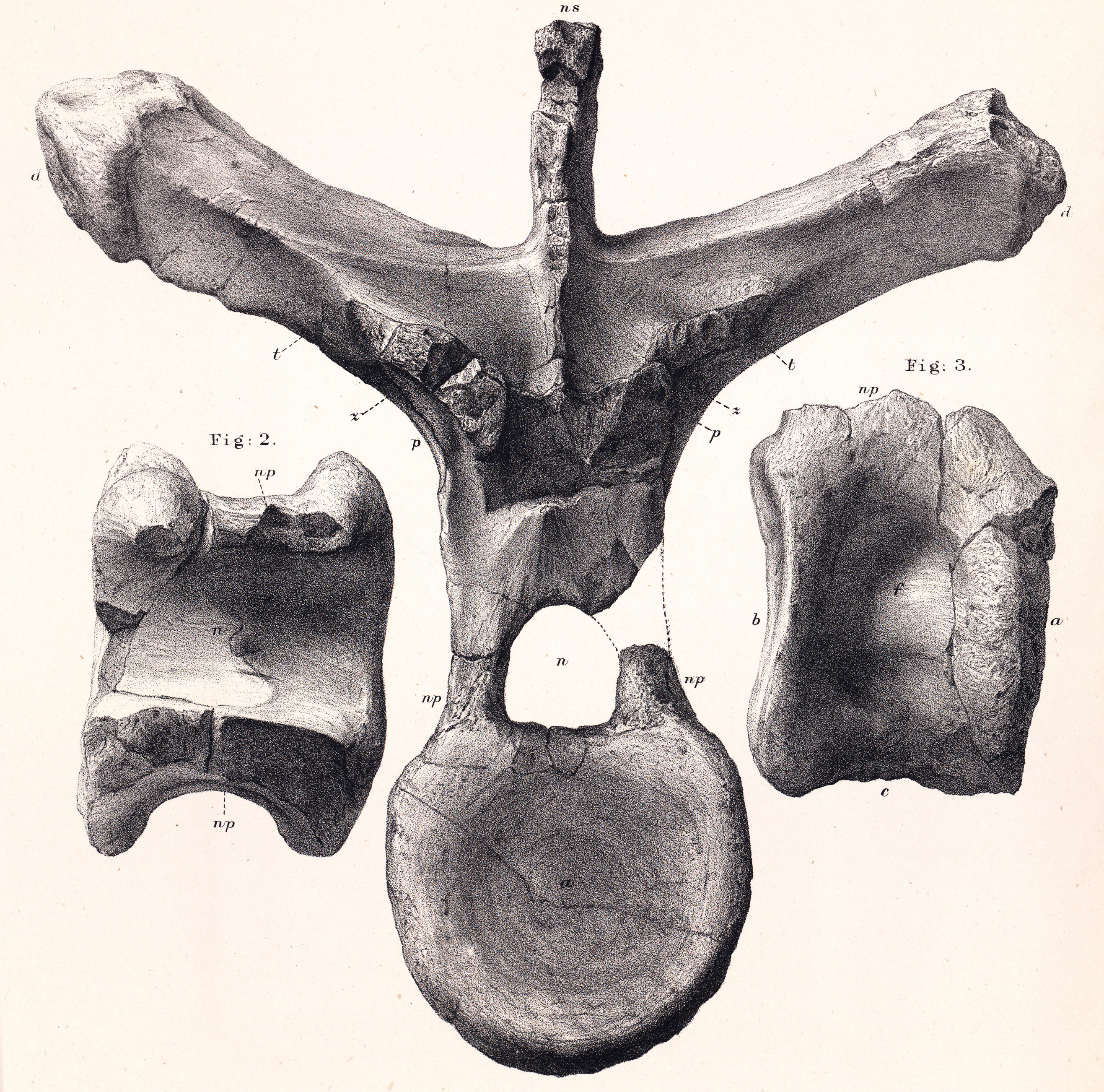 Omosaurus armatus. Fig. 1. Front-view of a dorsal vertebra. Fig. 2. Upper-view of the centrum of a dorsal vertebra. Fig. 3. Side-view of the same. The figures are of half the natural size. From the Kimmeridge Clay of Swindon, Wilts. In the British Museum.